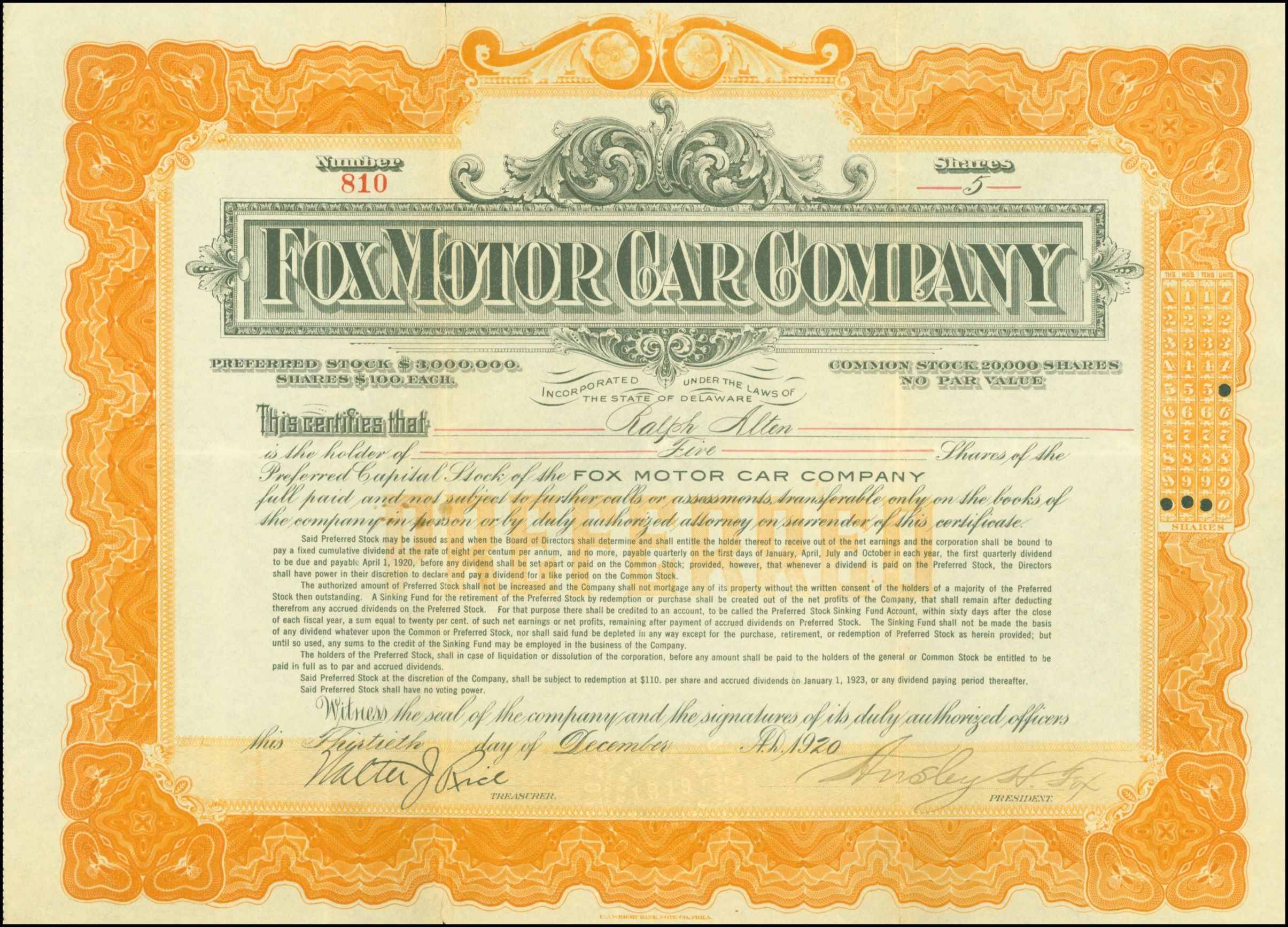 Share of the Fox Motor Car Company, issued 13. December 1920